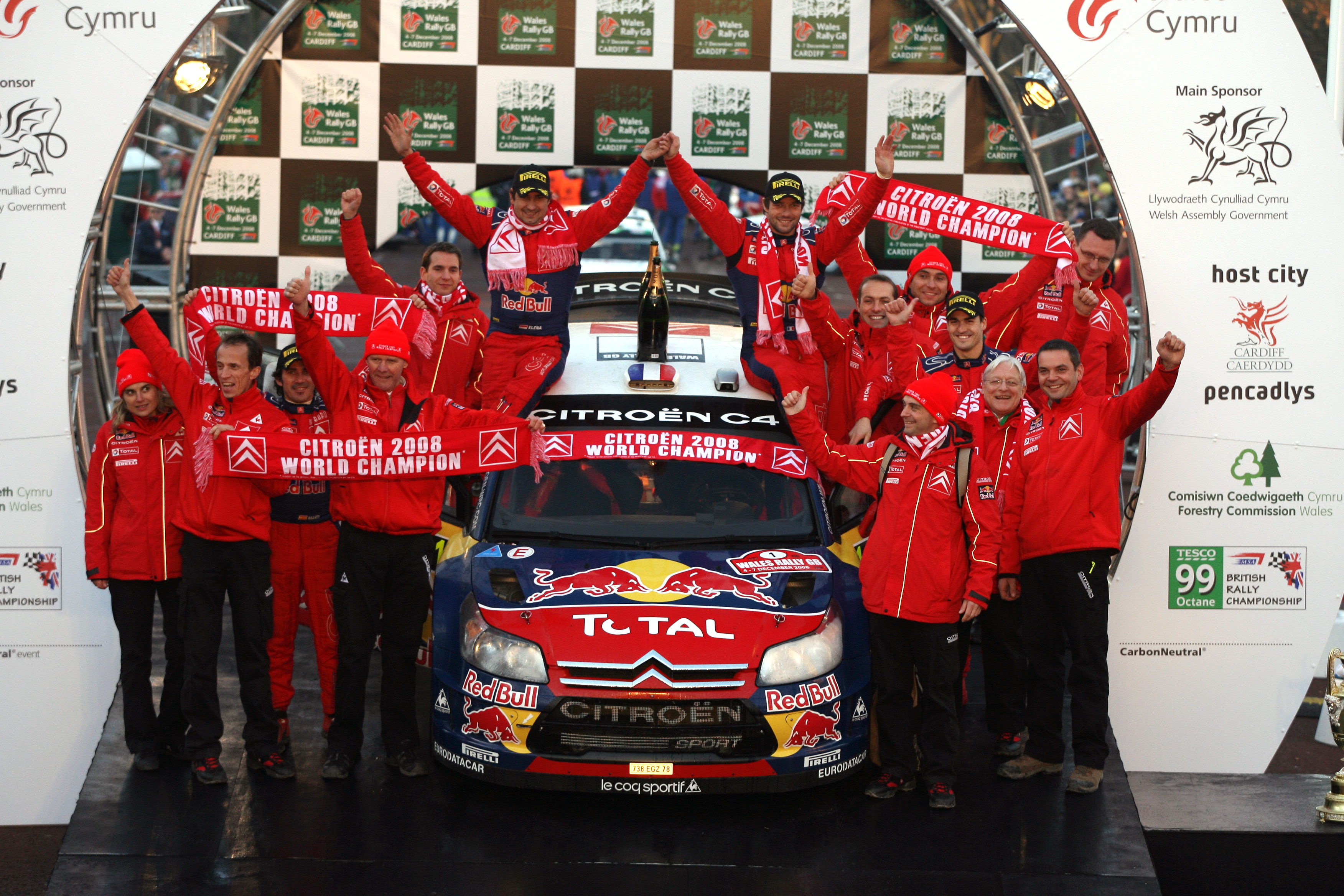 The Citroën Total World Rally Team celebrate their win in the 2008 World Rally Manufacturers' championship at the Wales Rally GB, the last rally of the 2008 WRC season.